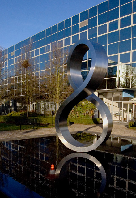 Sculpture, Milton Keynes